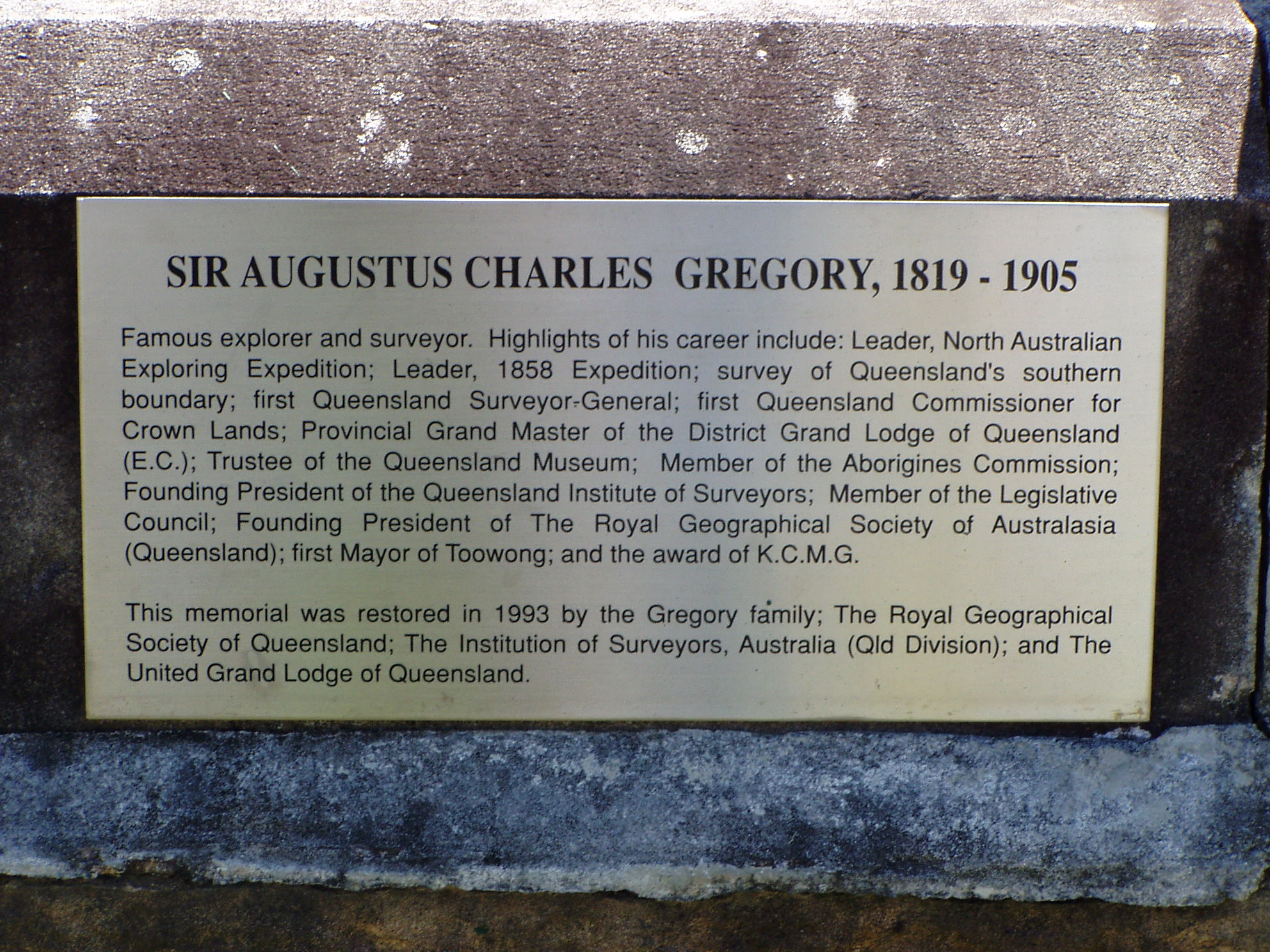 Plaque at the grave of Augustus Gregory at Brisbane's Toowong Cemetery